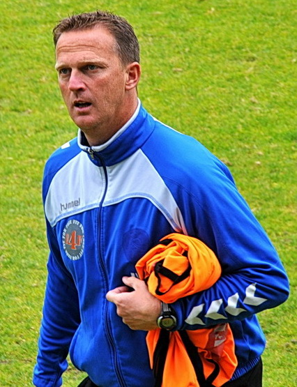 John van den Brom is a former professional footballer and a current football coach.